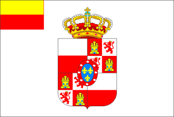 Flag of Duchy of Lucca.